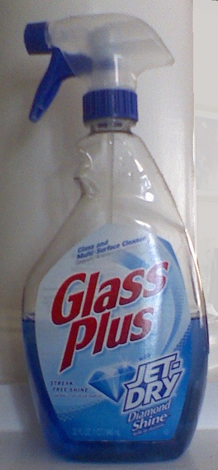 Glass Plus spray